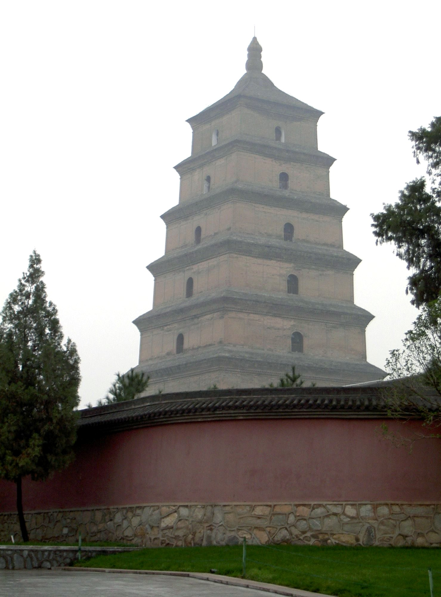 7th century 'Big Wild Goose Pagoda' — Xian, China, September 2004